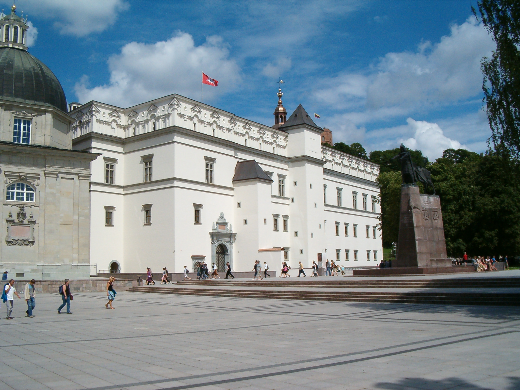 Palace of the Grand Dukes of Lithuania